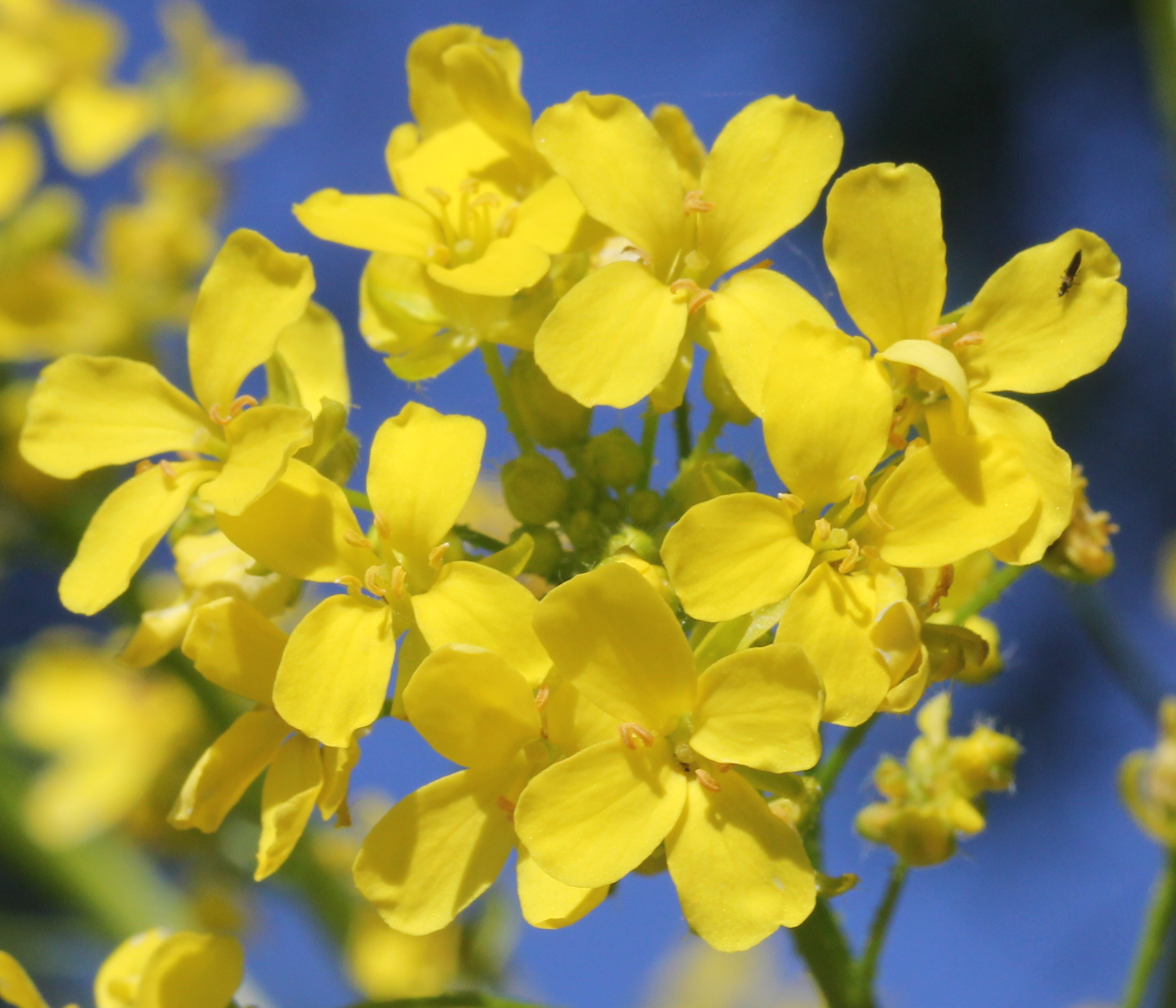 Bunias orientalis flowers